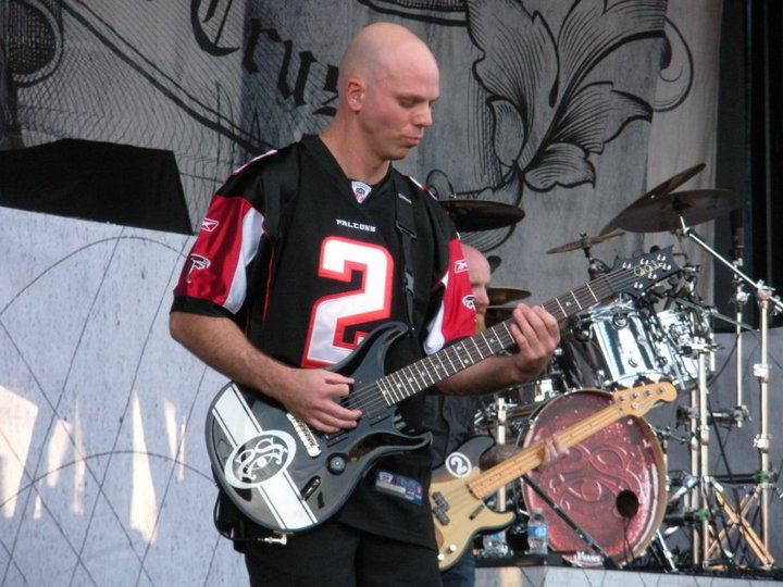 Josh Rand playing Rockstar Uproar Festival in Council Bluffs, IA